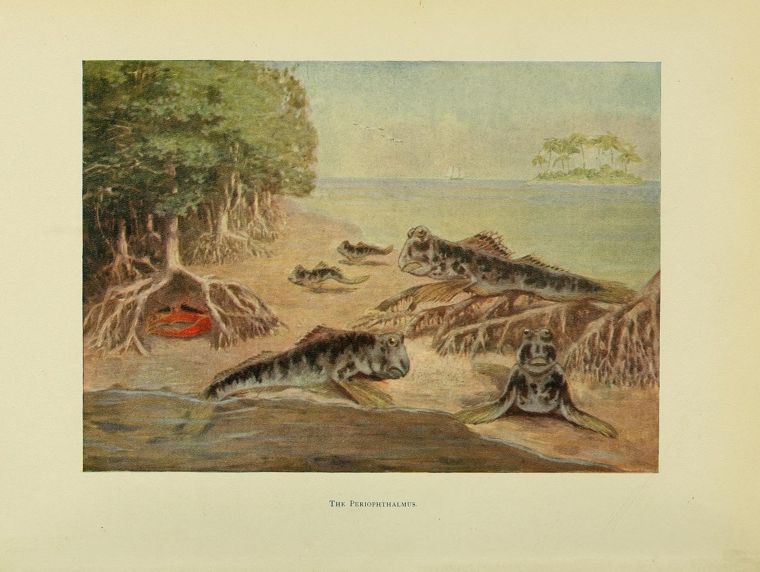 Animal life and the world of nature : a magazine of natural history throughout the world.